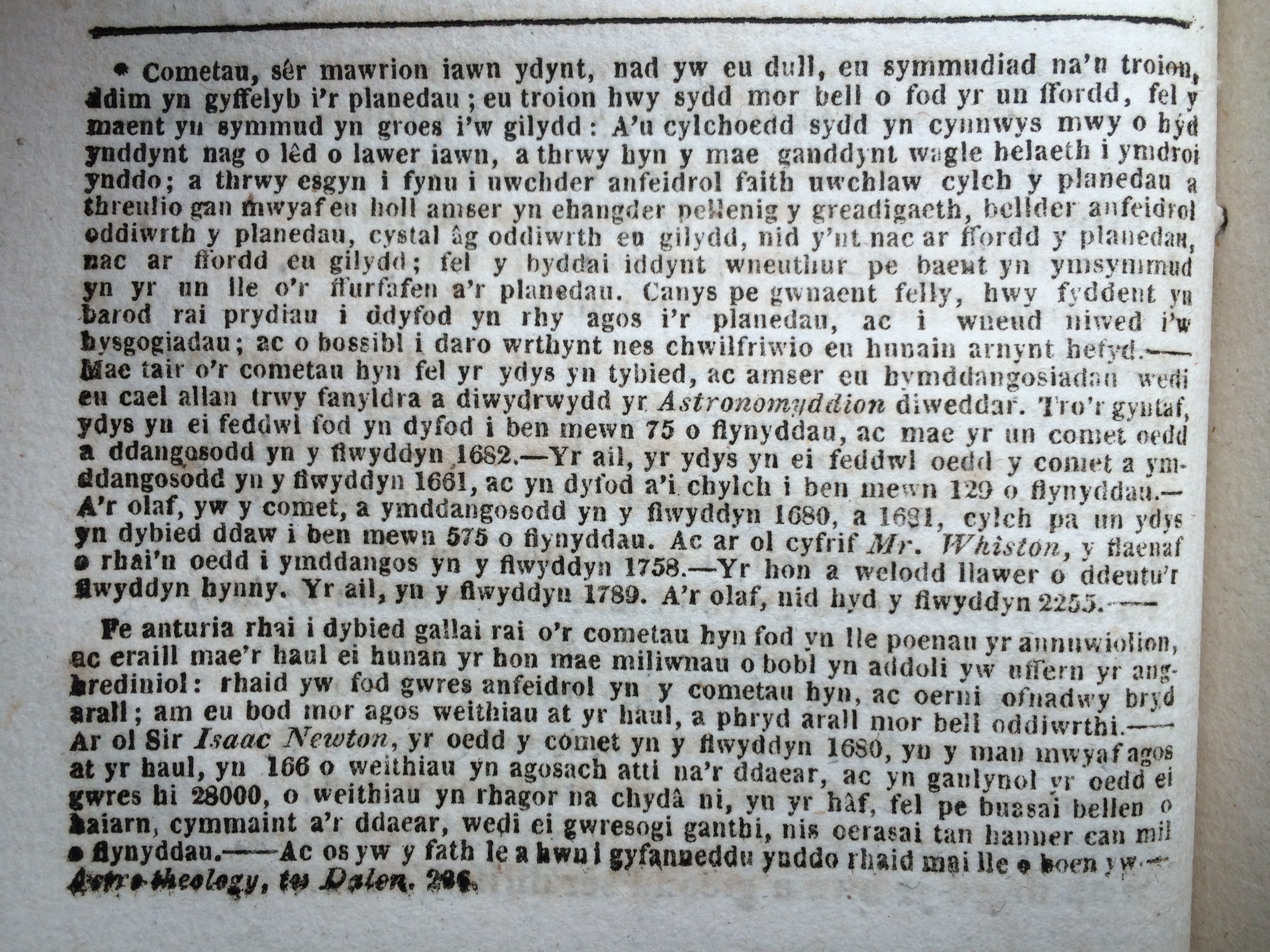 Golwg ar Deyrnas Crist. William Williams (Pantycelyn). 4th edition. (1822) page 40 footnote